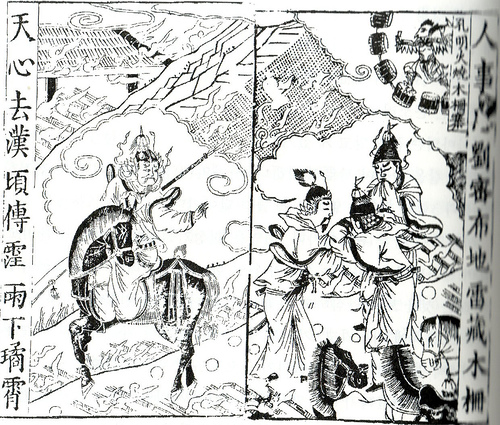 A Qing Dynasty illustration of Wei Yan trapping the Wei advisor Sima Yi and his two sons, Sima Shi and Sima Zhao.